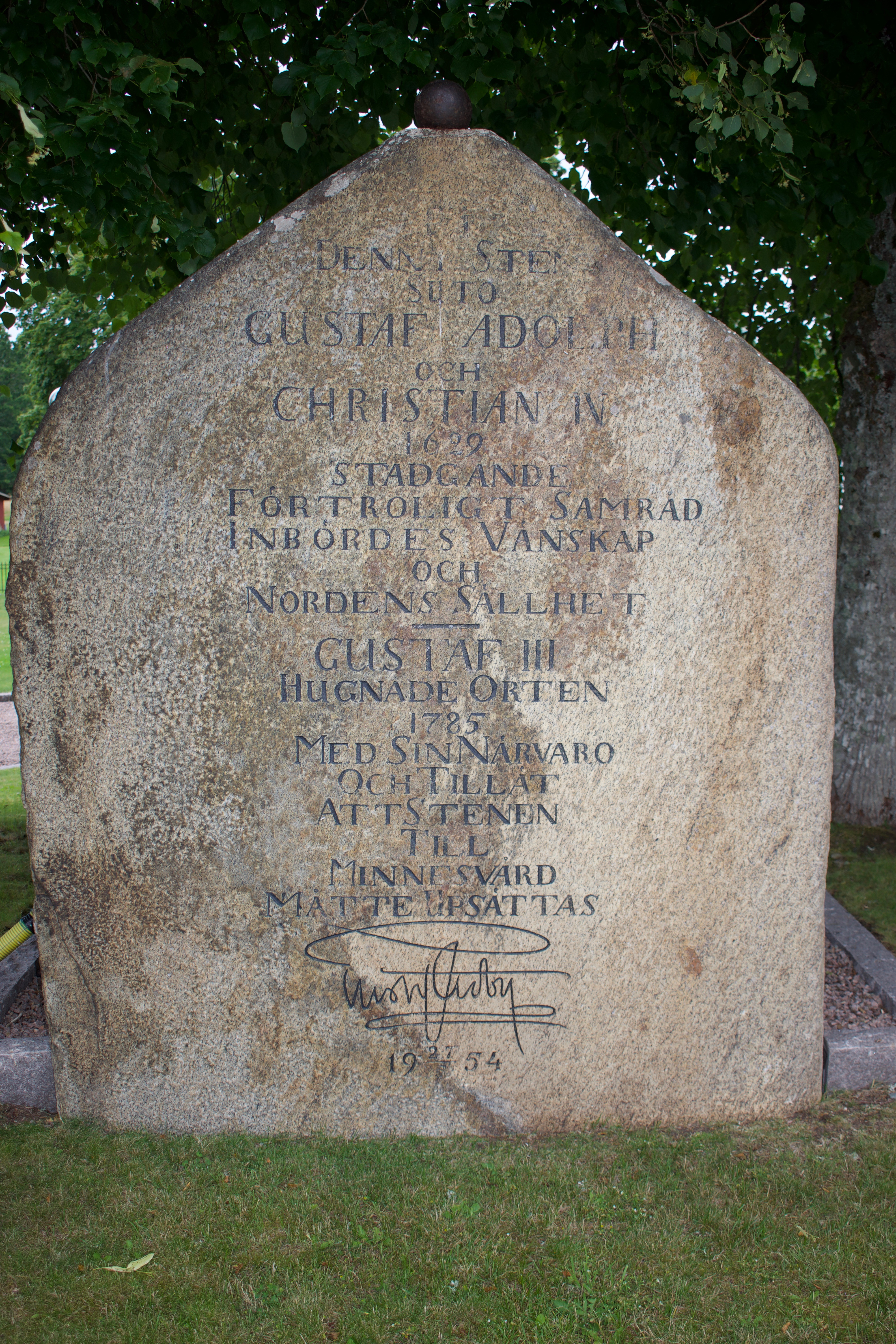 Memorial stone at Ulfsbäck rectory (obverse), commemorating the meeting between Gustavus Adolphus of Sweden and Christian IV of Denmark in 1629.